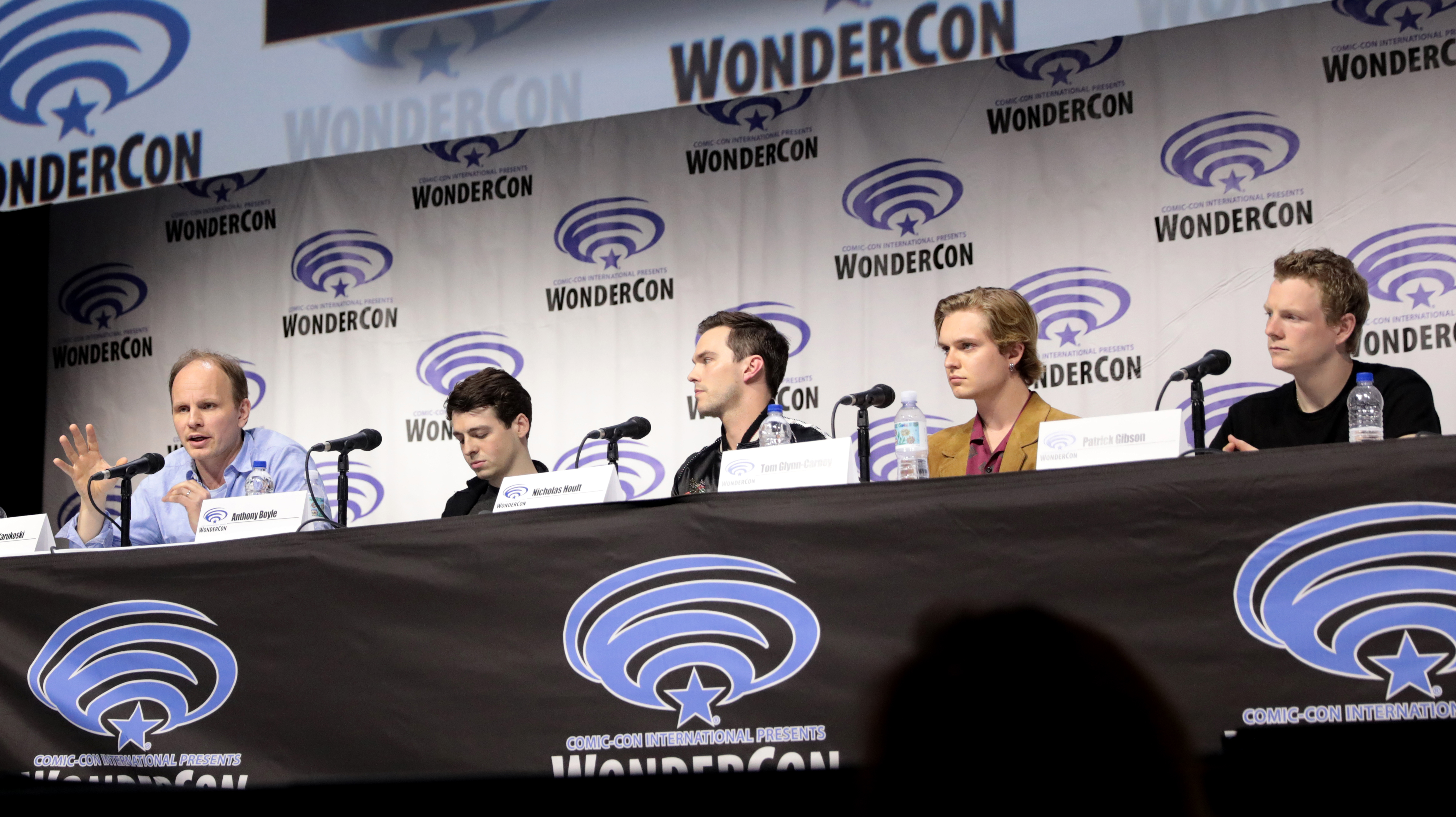 The cast of Tolkien at the 2019 WonderCon in Anaheim, California.